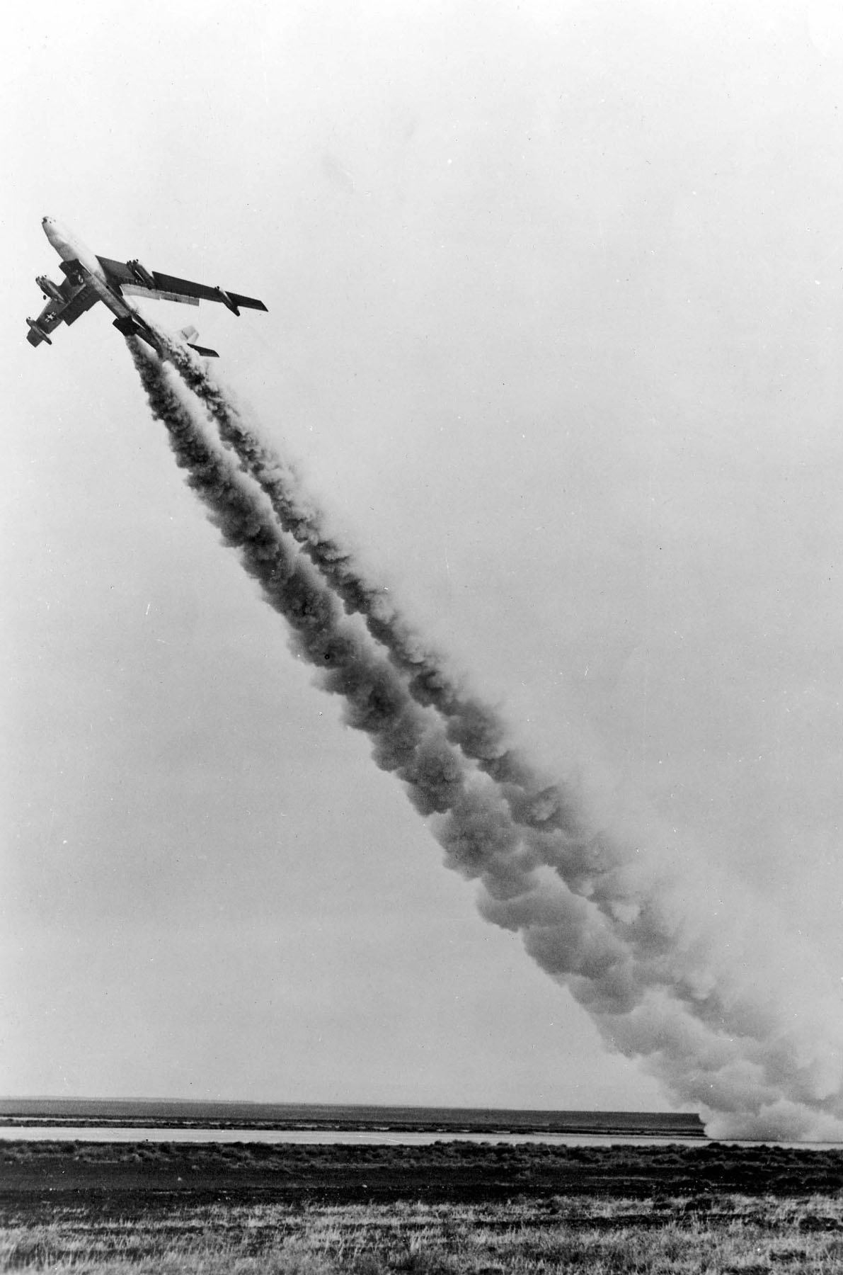 Boeing XB-47 rocket-assisted take off on Dec. 31, 1948.